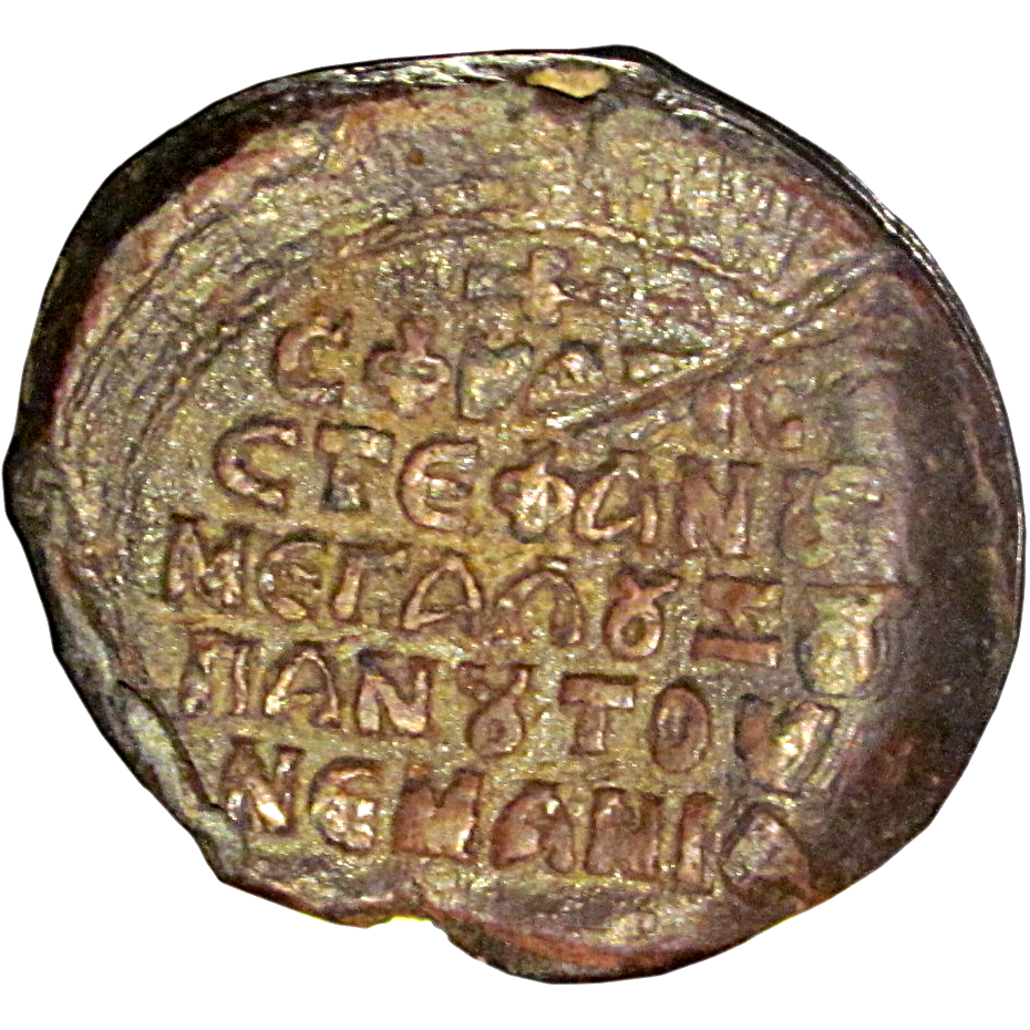 Seal of Stefan Serbian Grand Zhupan Nemanja, 1198